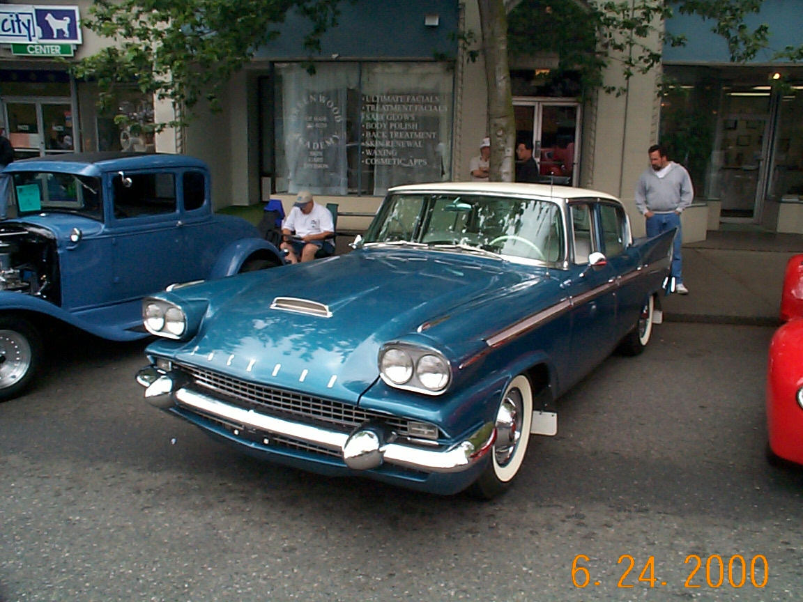 1958 Packard four door sedan, taken at the Greenwood Auto Show in Seattle, Washington.